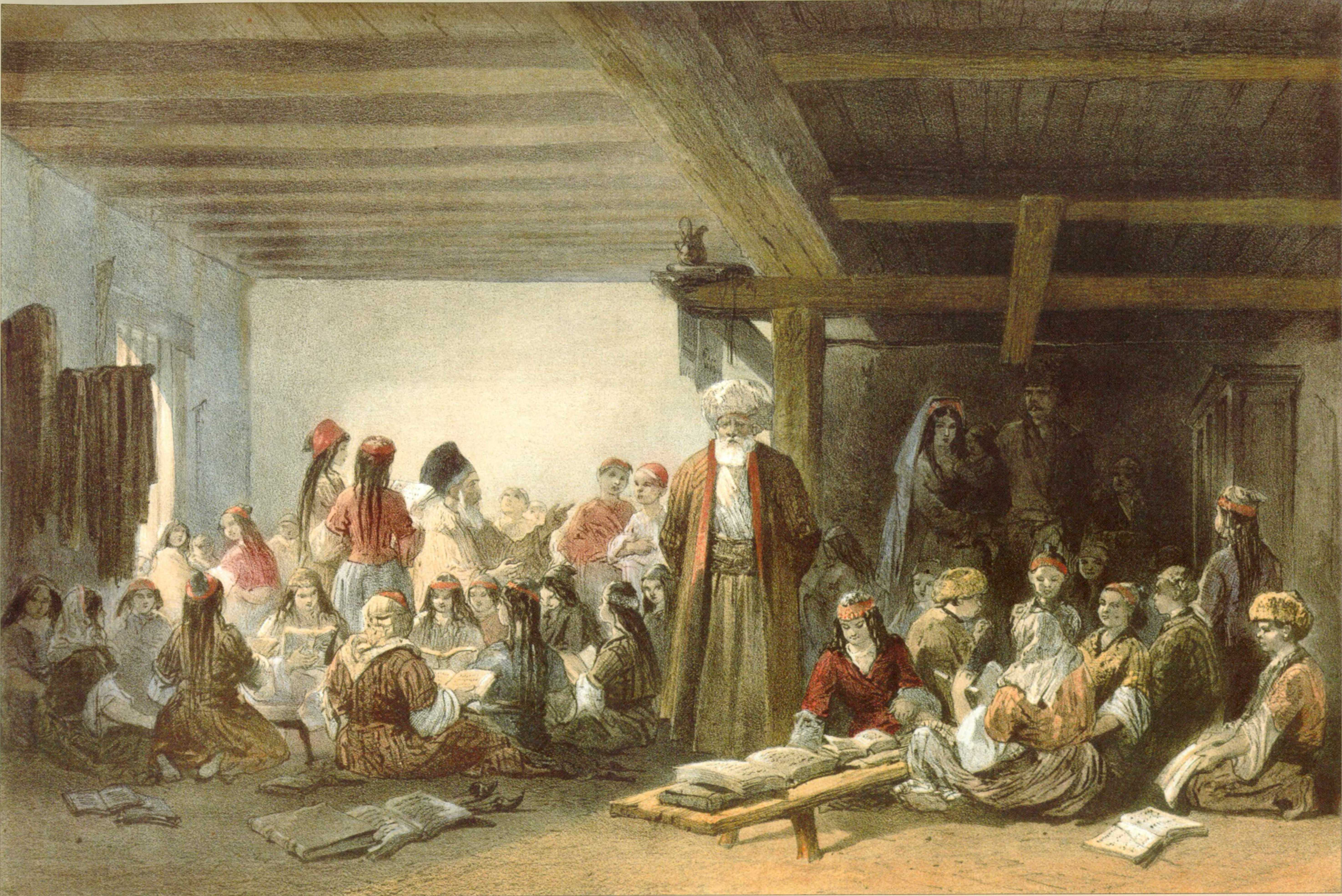 Carlo Bossoli. Tatar school for children in Crimea.